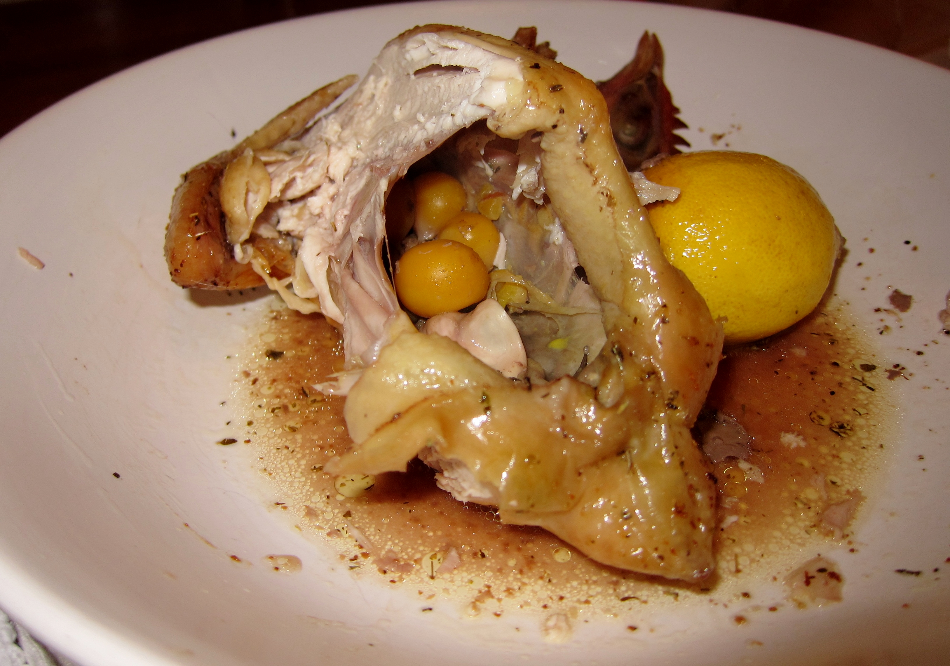 A roasted organic chicken served with its own unlaid eggs.